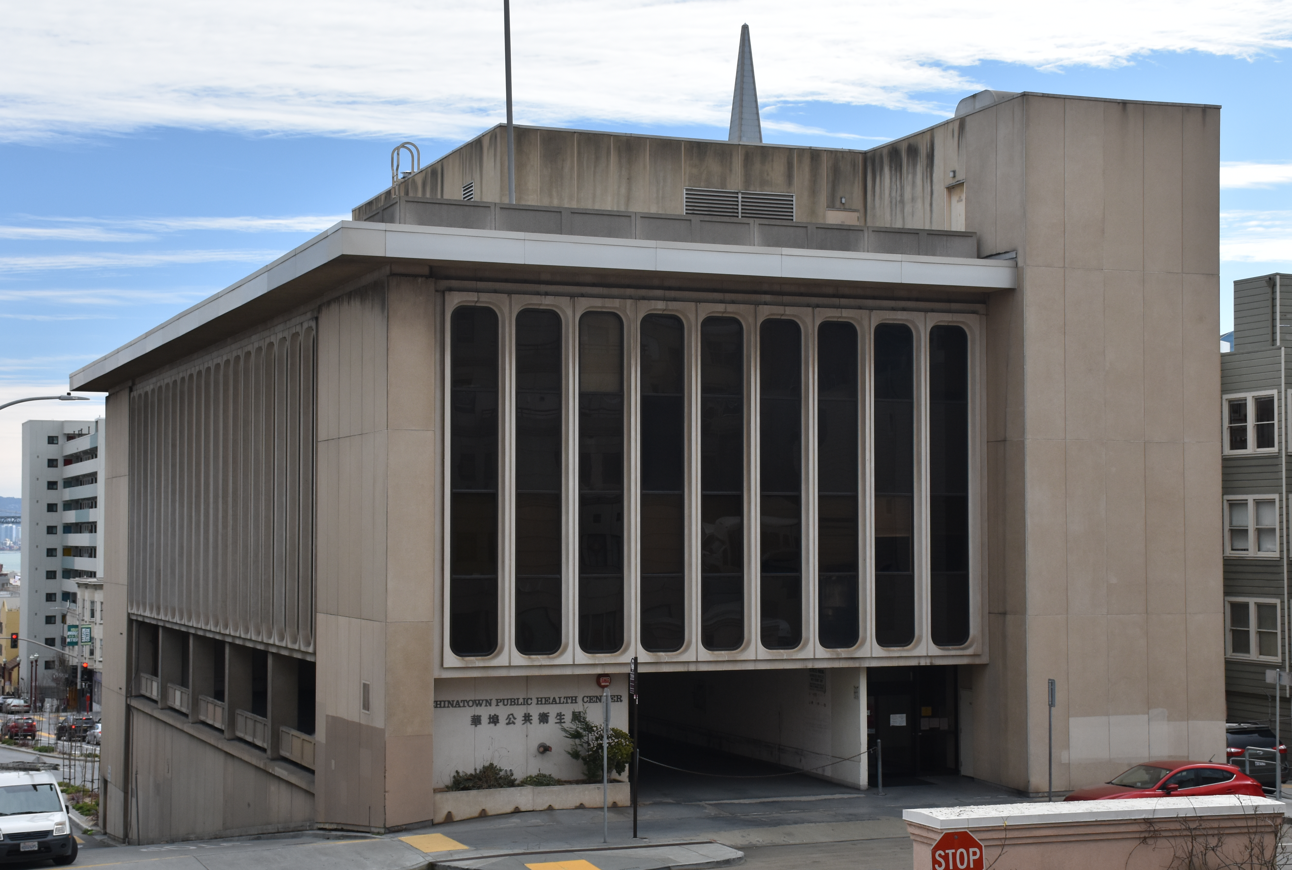 The building of the Chinatown Public Health Center (華埠公共衛生局) on top of the eastern end of the Broadway Tunnel, San Francisco, seen from the West across Mason Street